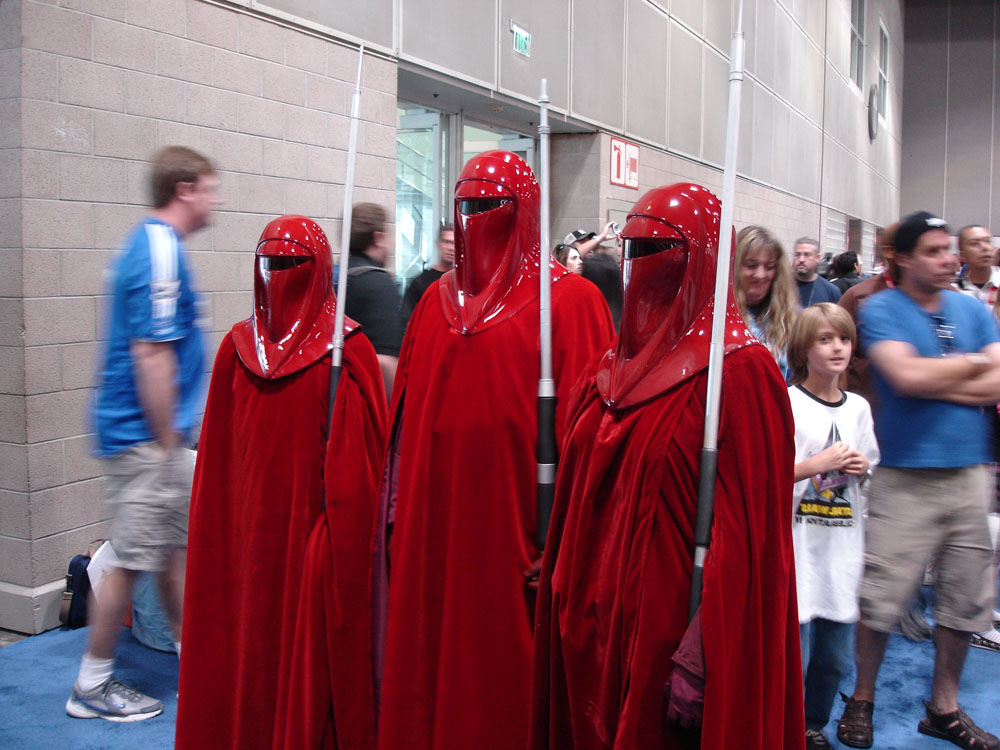 Star Wars Celebration IV - Royal Guards